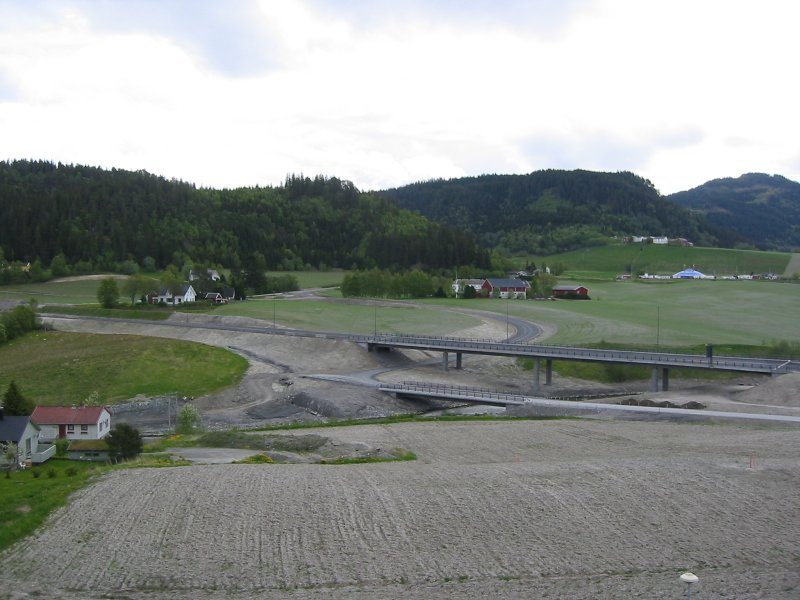 A messy set of roads in the small town of Skaun, Sør-Trøndelag, Norway. Rossvollbrua.